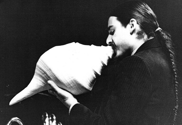 Trombonist and seashell player Steve Turre in Paris, France